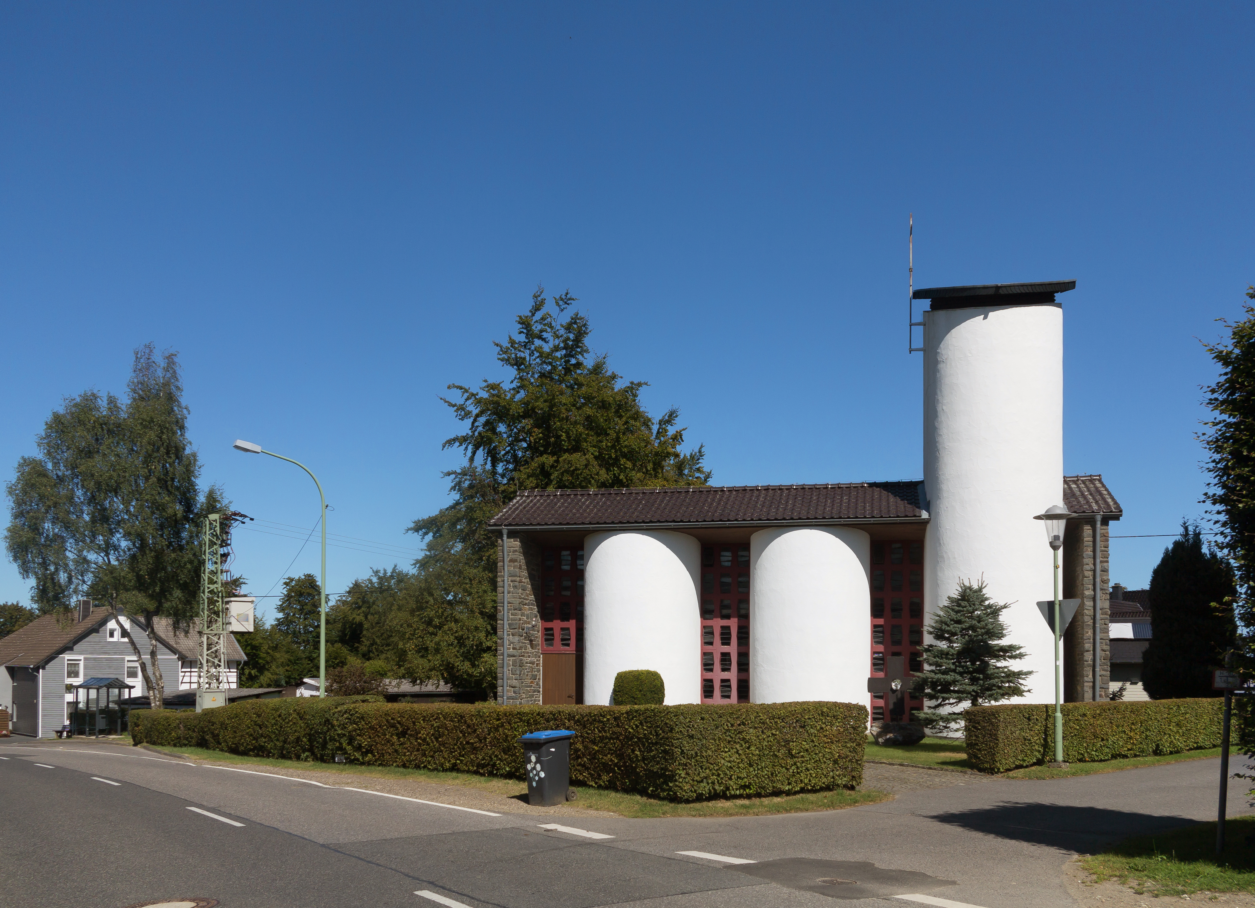 Paustenbach, street view: the Paustenbacher Strasse